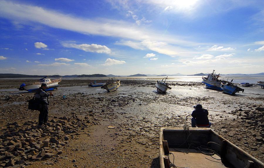 south korea seosan.